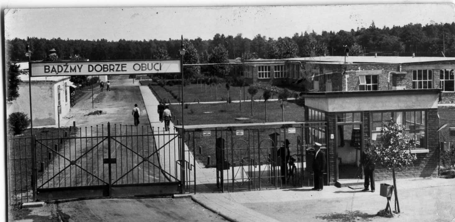 Chelmek is located in Polish Silesia very close to Auschwitz-Birkenau and the coal mines of Libiaz, not to mention the huge railway works at Chrzanow and the oil refinery at Trzebinia. A sub-camp of AUschwitz-Birkenau was established here in 1941 by Otto P. Klein (wikipedia). The Bata factory was established here in 1930s by Bata of Zlin in Czechoslovakia as a way of entering the polish footwear market on land of the Prince Adam Zygmunt Sapieha, nephew of the Cardinal of Krakow.